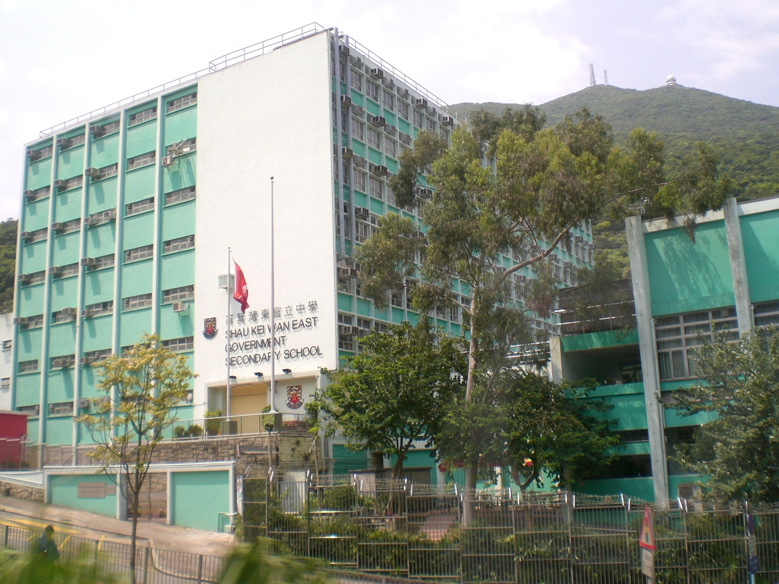 Shau Kei Wan Road, Hong Kong. 筲箕灣筲箕灣道 筲箕灣東官立中學 Photo by me.